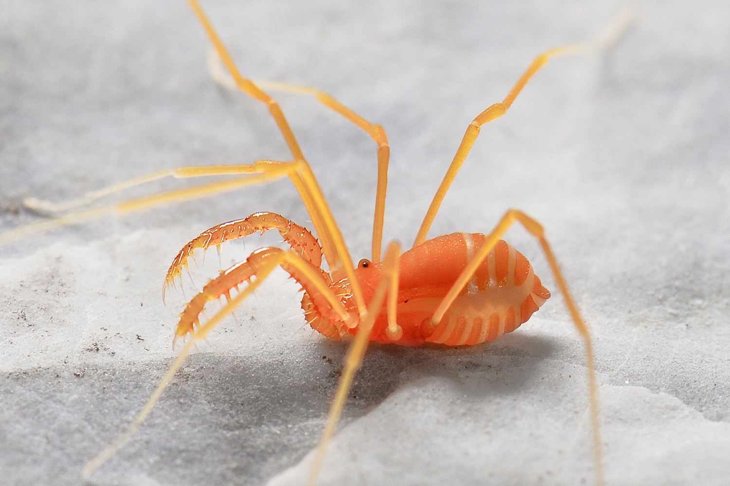 Cyptobunus ungulatus (=Sclerobunus ungulatus) the Model Cave harvestman; photographed in lab